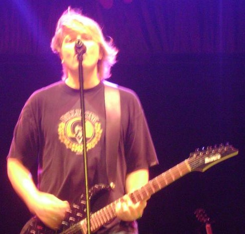 Dexter Holland Live @ Charlotte, NC 20-09-2008